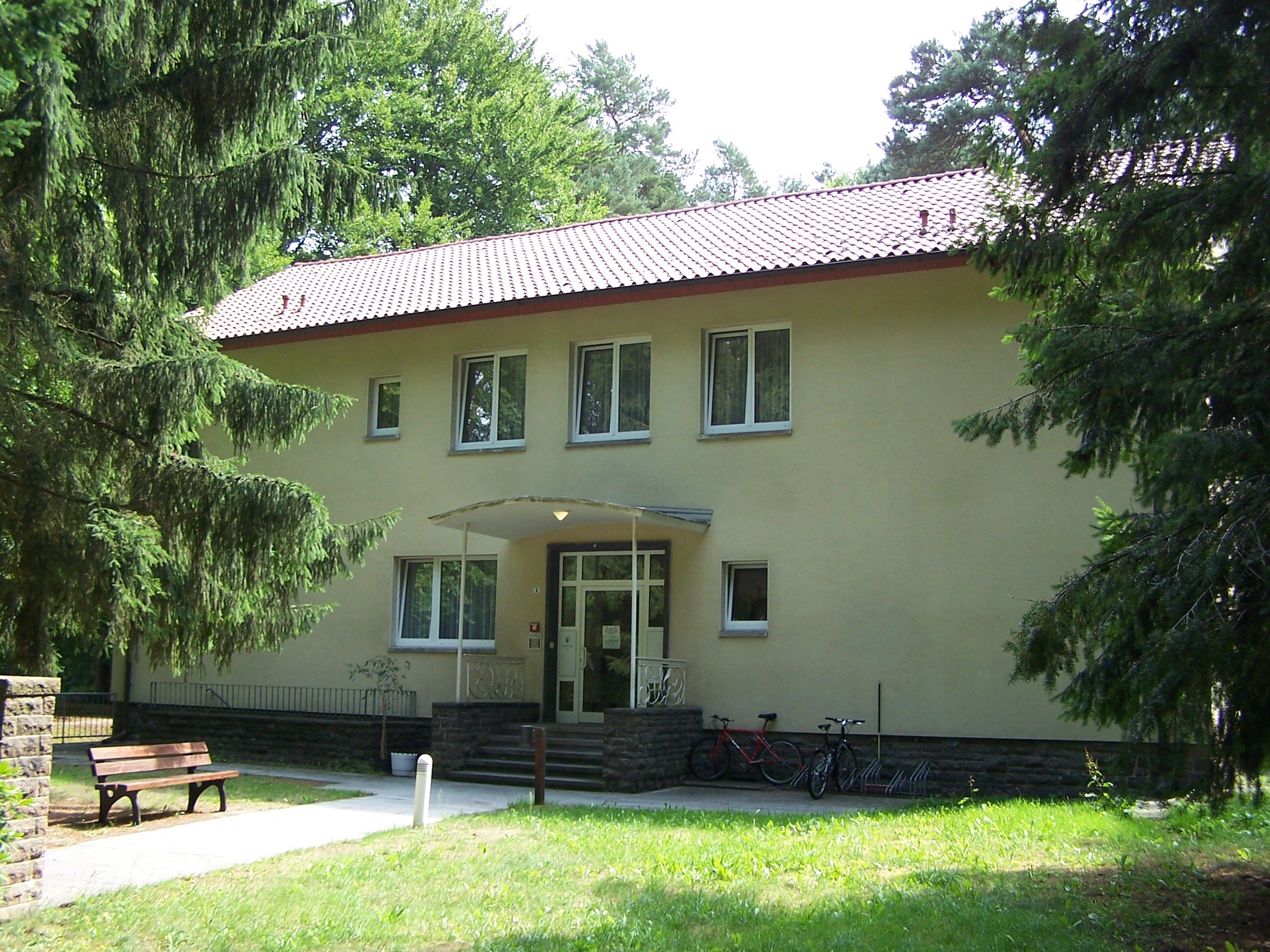 former House 11 (Honecker), today Habichtsweg 5